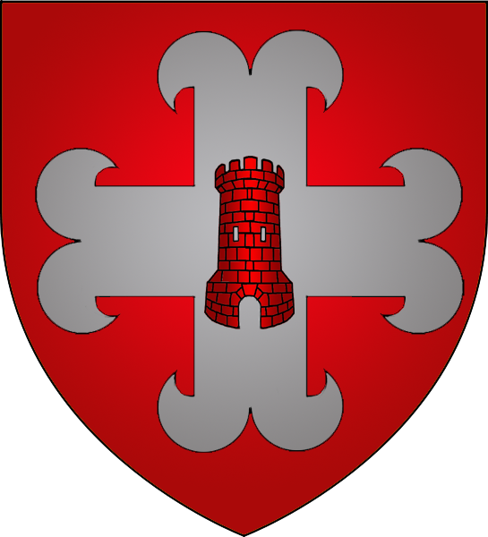 Coat of arms of the municipality of Septfontaines, Luxembourg